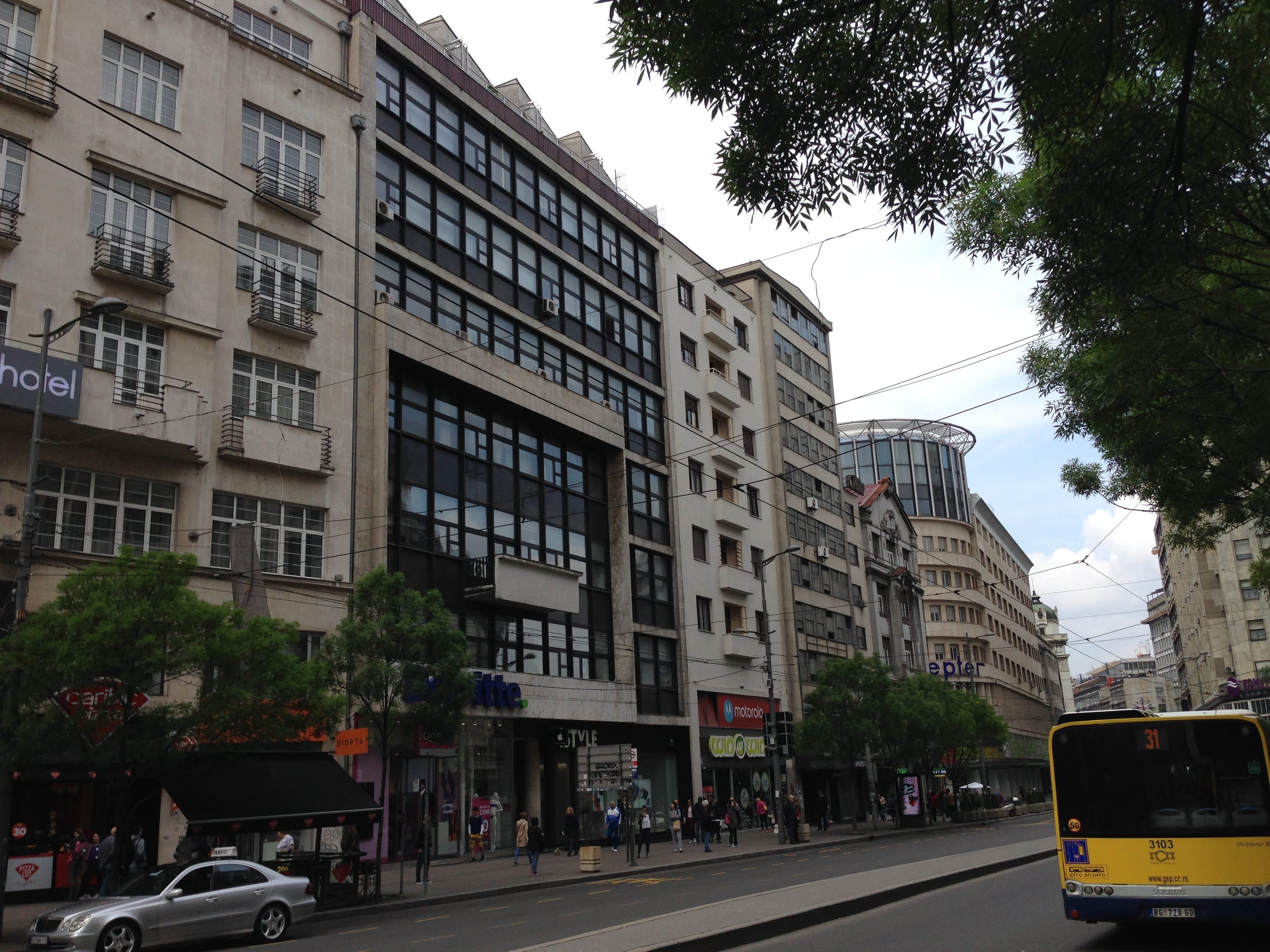 Hempro Building, Belgrad